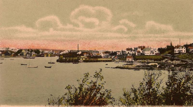 View of Vinalhaven, Maine from Lane's Island